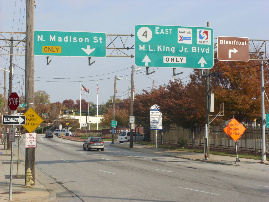 Delaware Route 4 eastbound approaching eastern terminus at Delaware Route 48 in Wilmington